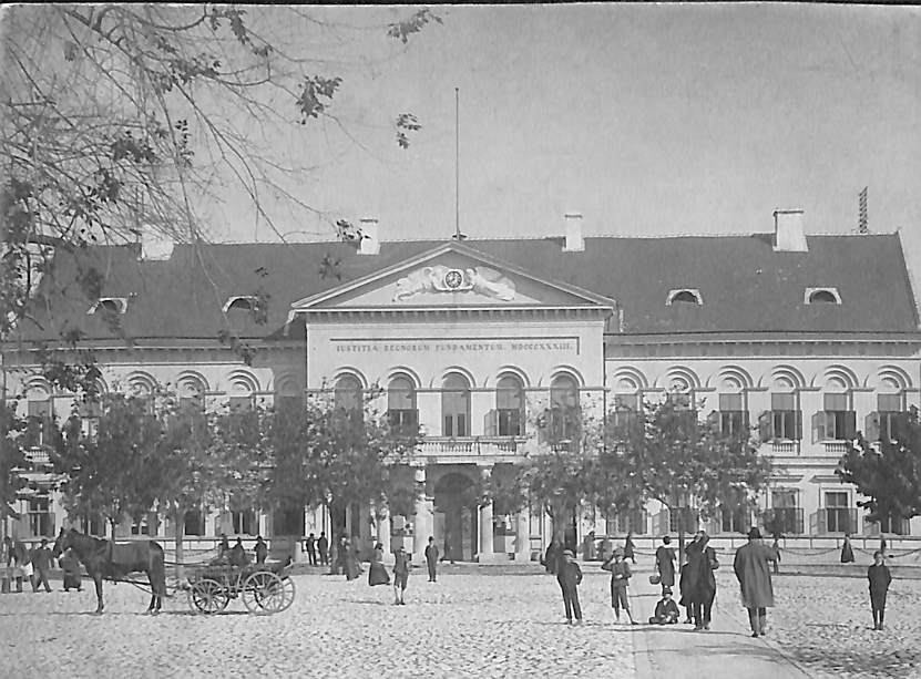 The building of Magistat in Pančevo, now this is the National Museum building